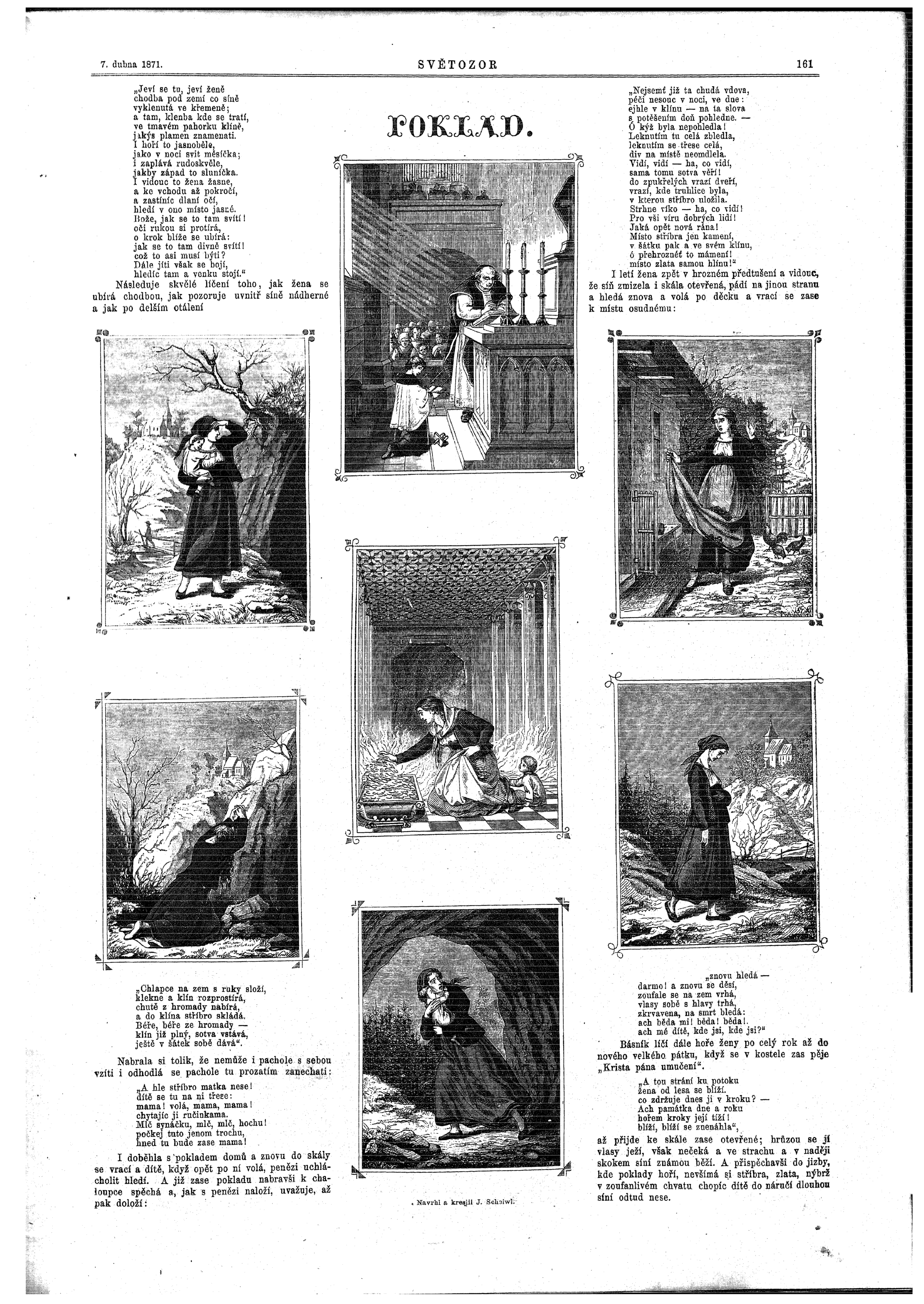 Set of illustrations to poem Poklad (The Treasure) by Karel Jaromír Erben. Plot: A cave full of gold opens only once a year, on Good Friday; a woman enters it with her child, takes gold and silver and leaves; while outside, the cave closes, the treasure turns into mud and she realizes that she had left her baby inside. She has to wait till next year to get the child back - and then, she ignores the gold, just anxious to bring the child safely out.